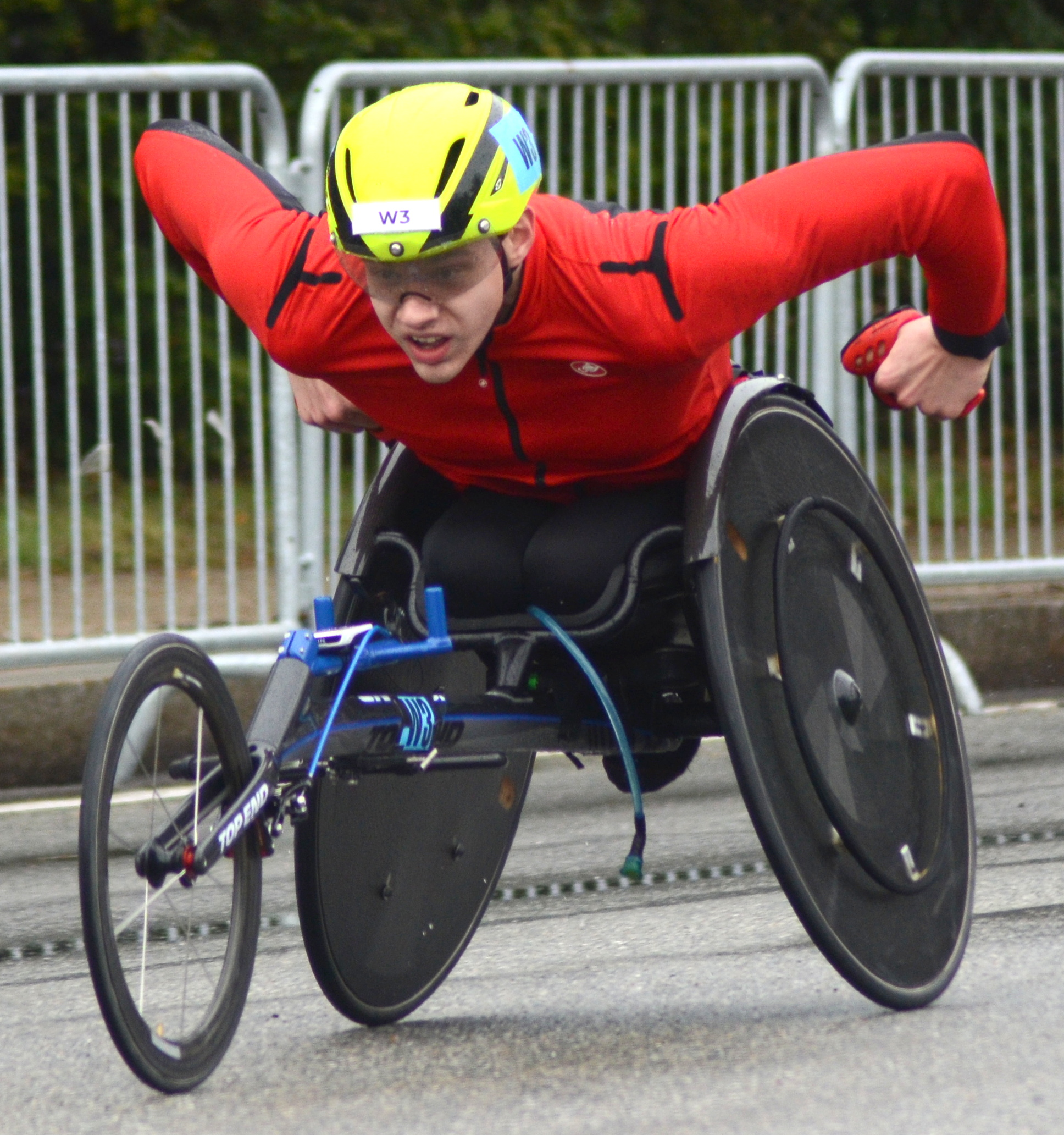 Daniel Romanchuk at half way mark of 2019 Boston Marathon in which he got first place